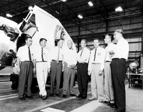 Dr. Von Braun, right, worked directly with America's first seven astronauts. This photo is believed to have been taken about 1959 in the Fabrication Laboratory of the Army Ballistic Missile Agency in Huntsville. The astronauts are, from left, Gus Grissom, Wally Schirra, Alan Shepard, John Glenn, Scott Carpenter, Gordon Cooper, and Deke Slayton.